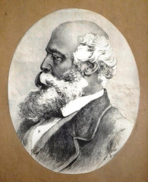 Sketched portrait of John Molteno. Cape businessman and first Prime Minister